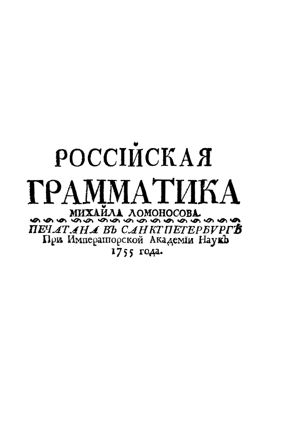 The title page of Mikhail Lomonosov's "Russian Grammar" (1755)